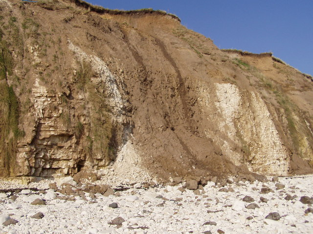 Coastal Erosion, Sewerby, East Riding of Yorkshire, England.The cliffs here are constantly eroding and care needs to be taken when walking the coastal path.